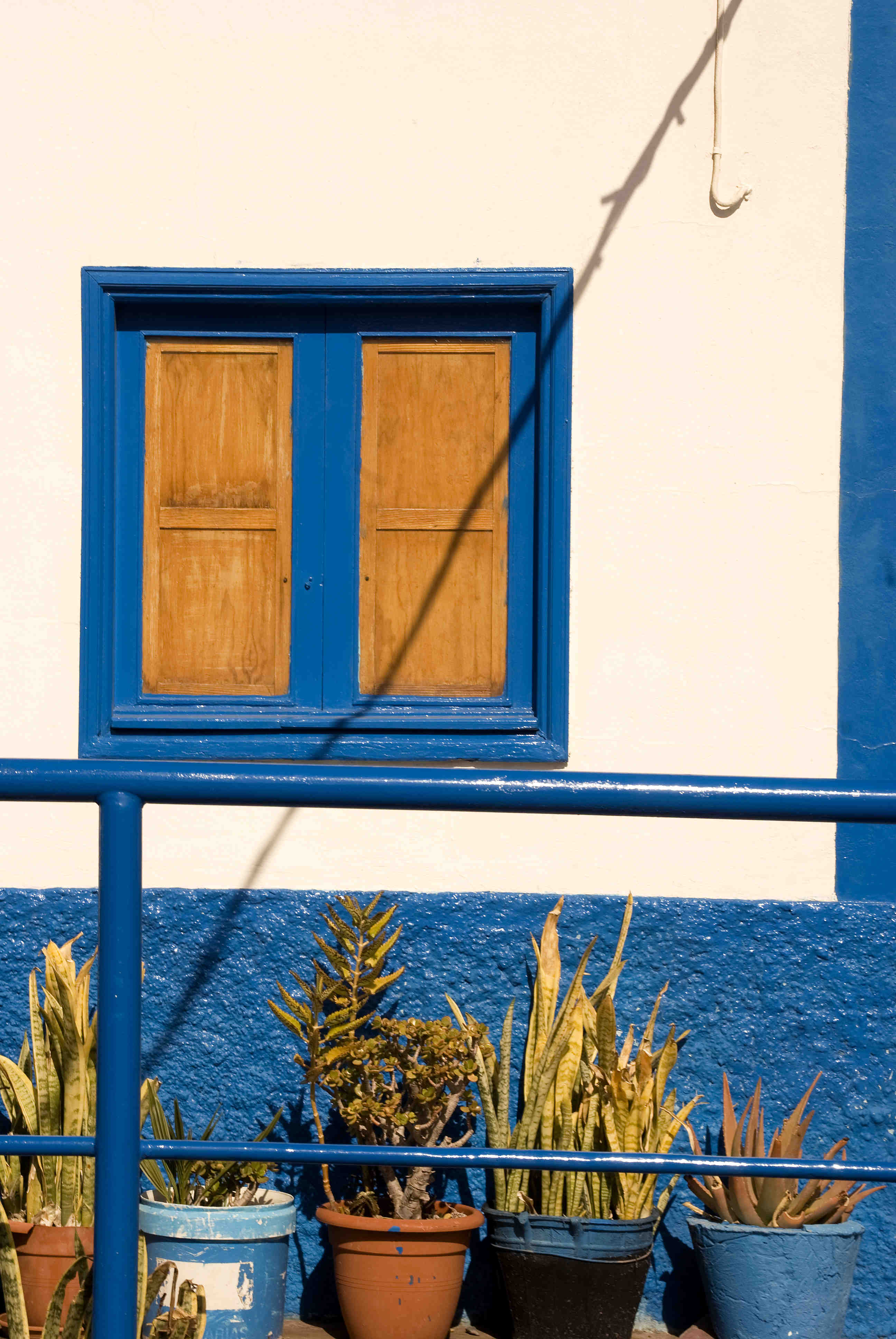 Agaete Gran Canaria Canary Islands Spain Architecture